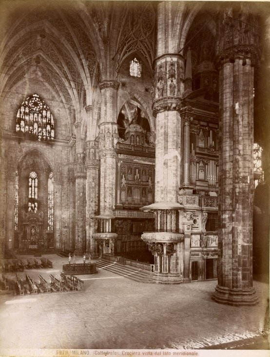 Giacomo Brogi (1822-1881) - "Milan. Cathedral. Crociera as seen from the sounthern side". Catalogue # 5979.